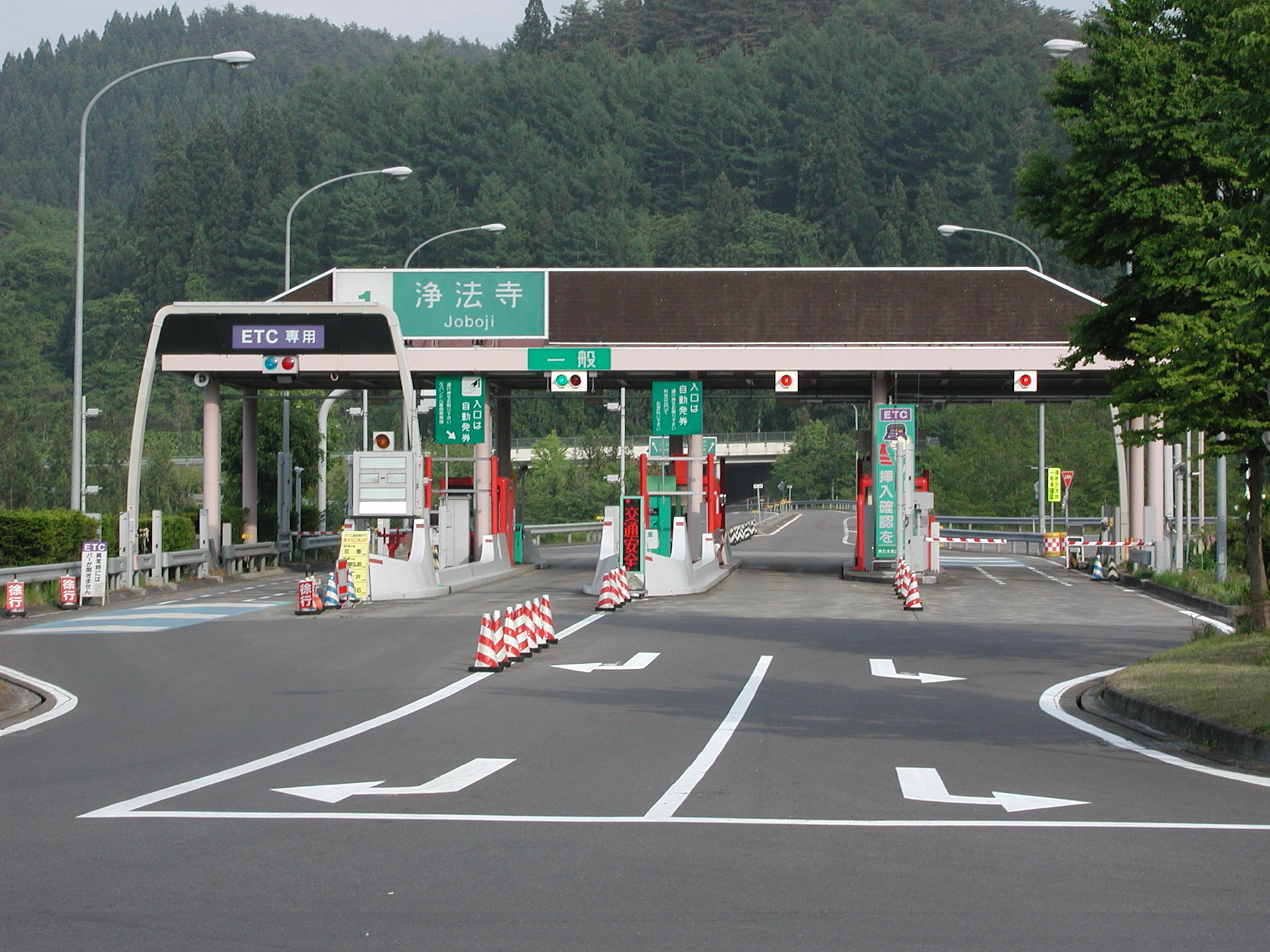 Hachinohe Expressway Joboji Interchange